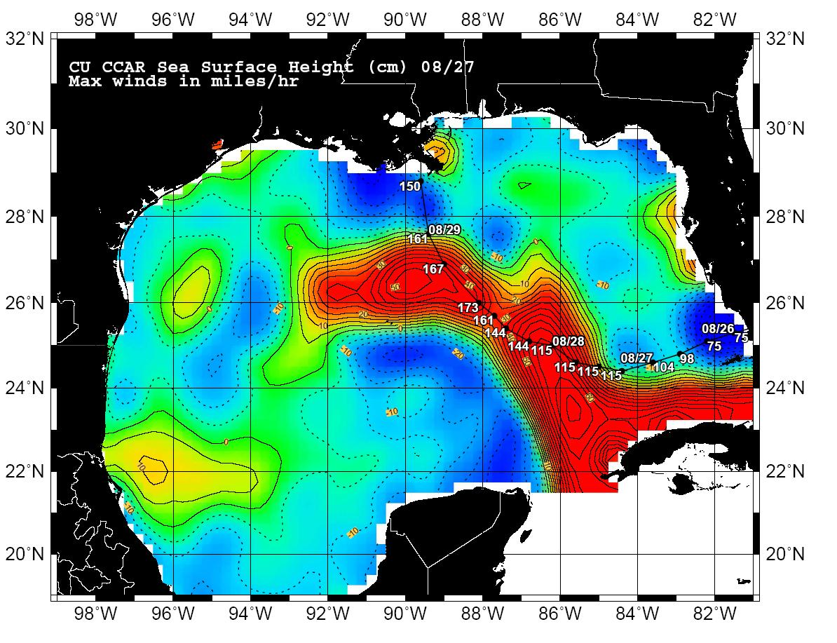 Obtained by recommendation of Jim Scott, News Services, University of Colorado 9/27/2005 - This image was referenced in a news release ( - CU-Boulder Researchers Chart Katrina's Growth In Gulf Of Mexico - The image shows Hurricane Katrina's maximum sustained windspeed after it crossed Florida and rode the warm Loop Current and Eddy Vortex up towards Louisiana. Sea surface height is a proxy for water temperature, as warmer water is less dense and therefore has a higher surface. Note that a hurricane will leave a "cool" trail behind it.